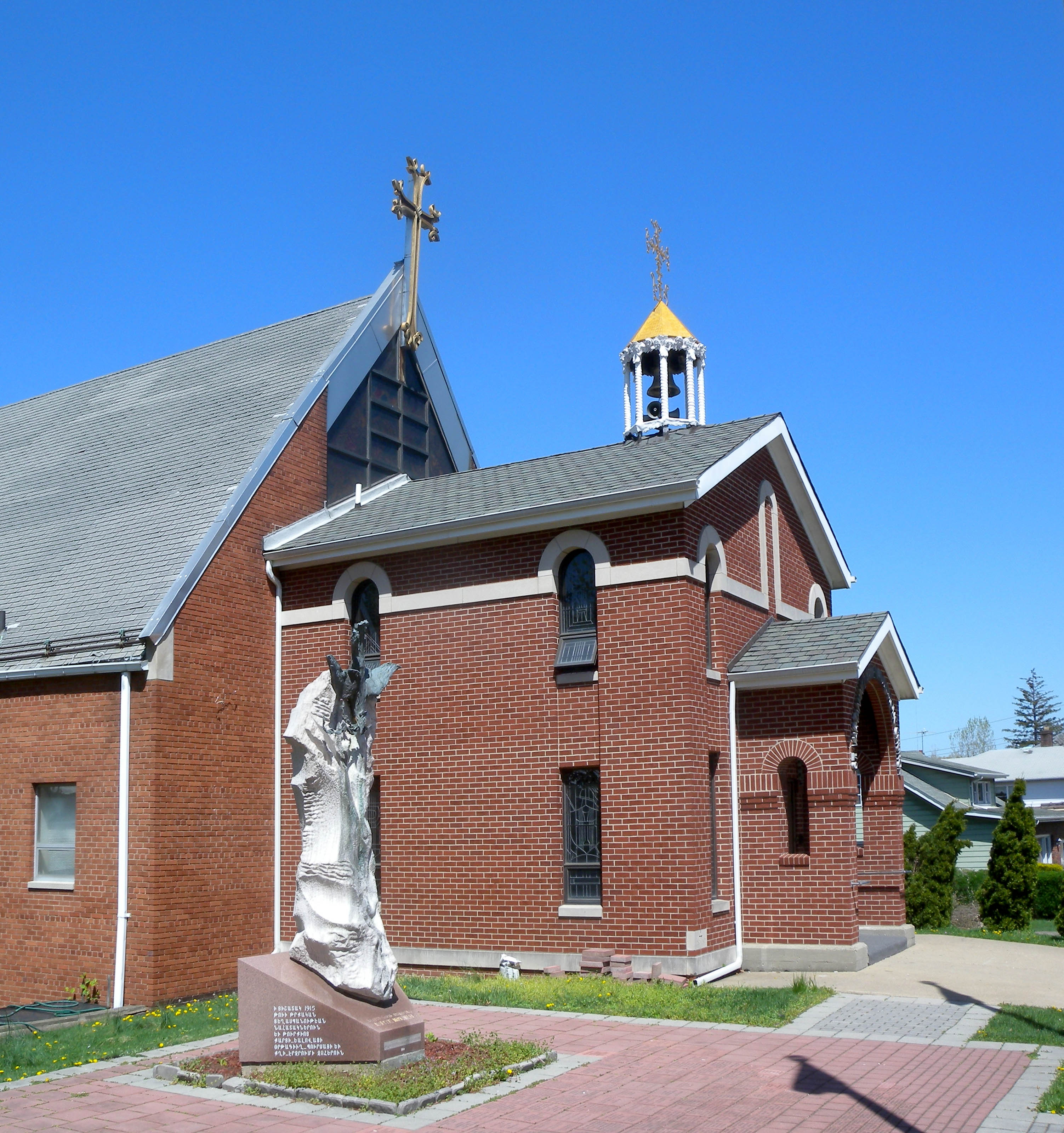 Looking north from Bergen Blvd at St Vartan Armenian Apostolic Church in Ridgefield on a sunny midday.